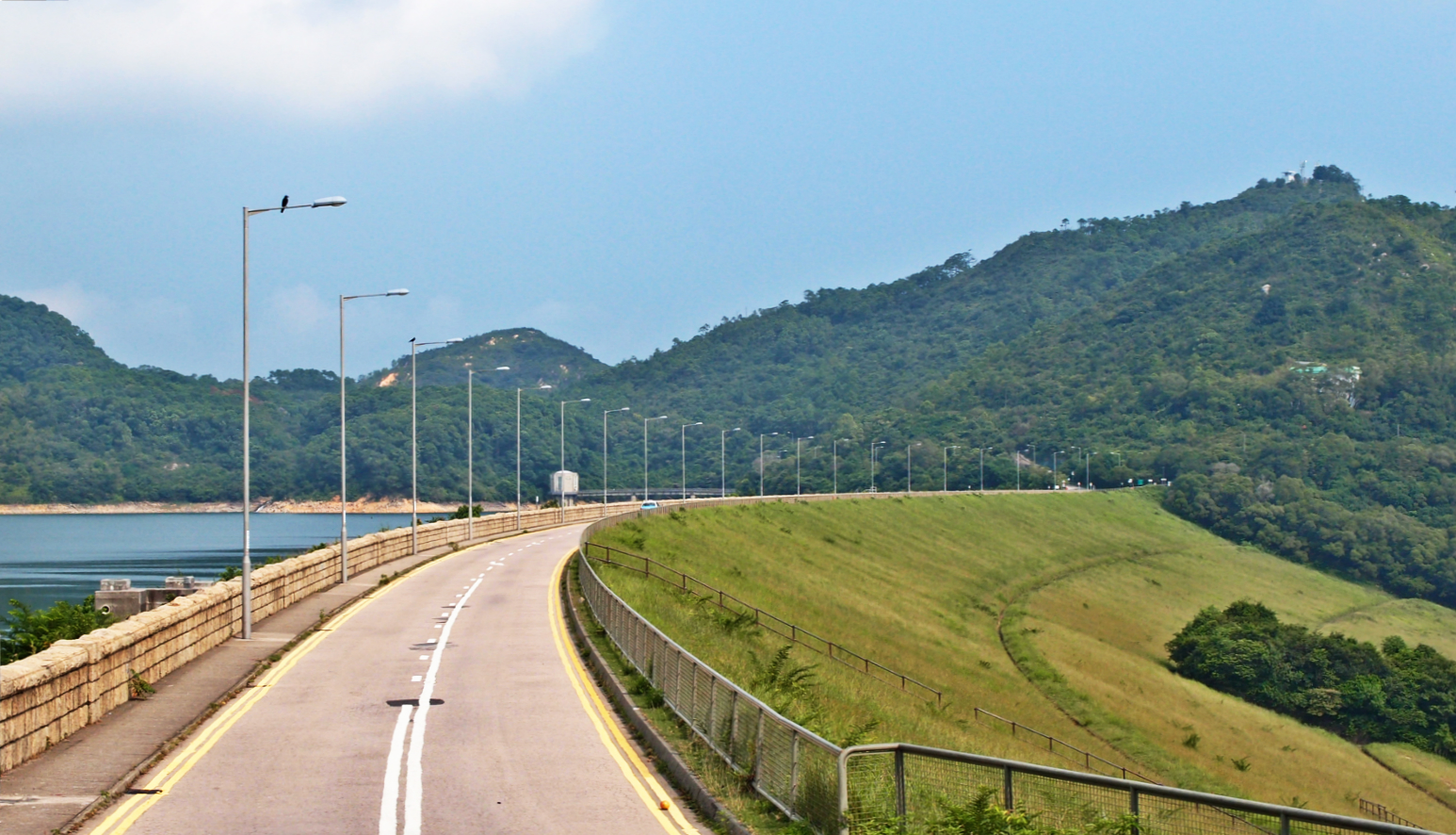 石壁水壩上的斜草坪